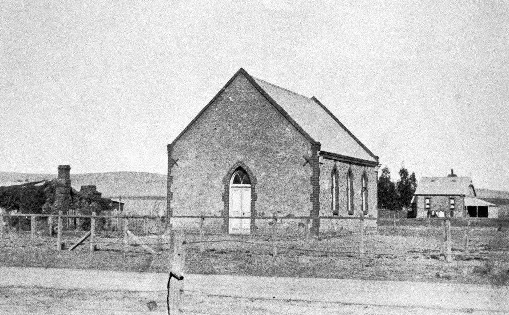 Picture of the Presbyterian Church at Belalie East, South Australia.